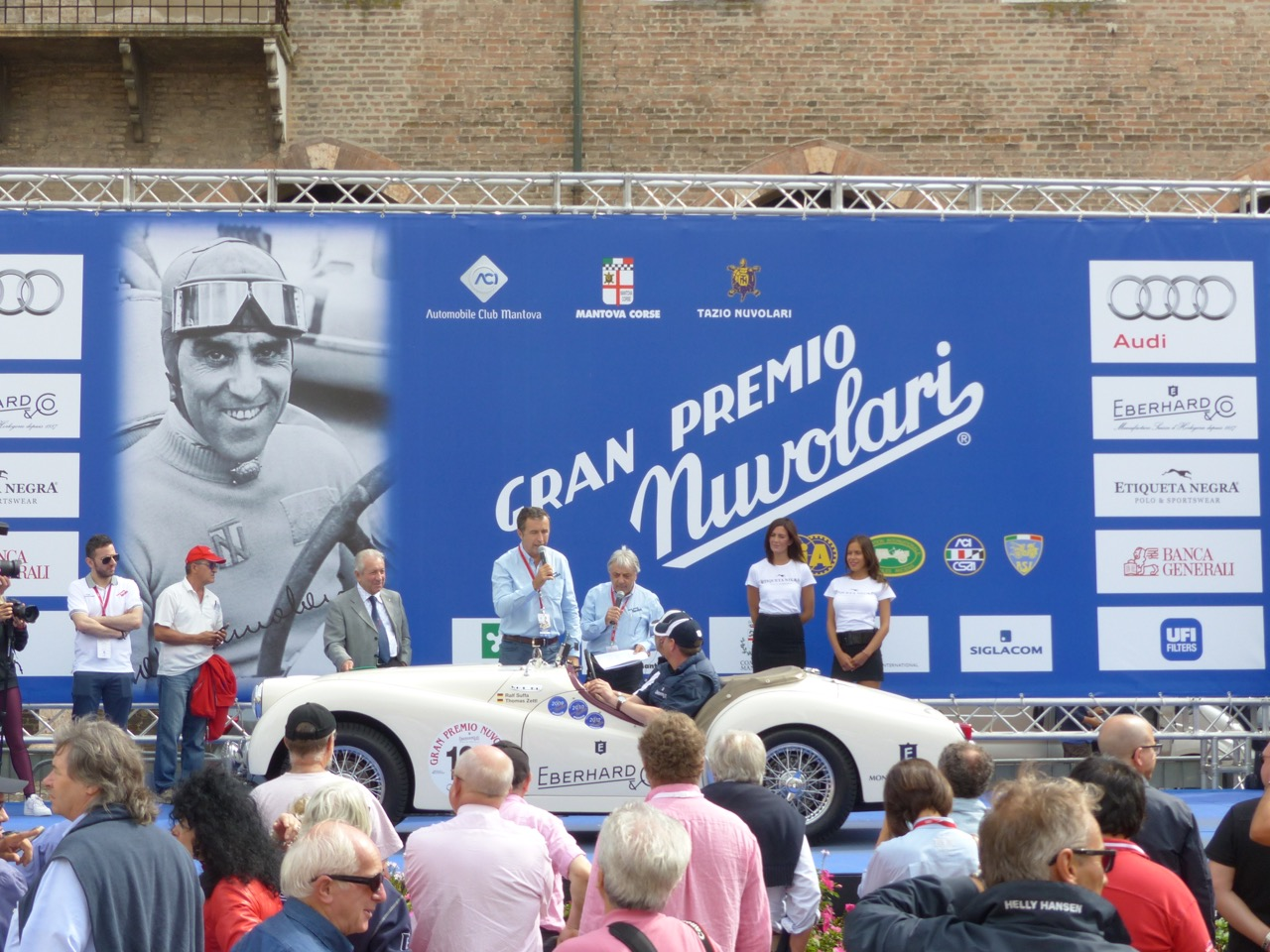 Start of the Gran Premio Nuvolari 2014 in Mantova with best German Team Zettl/Suffa in a 1955 Triumph TR2